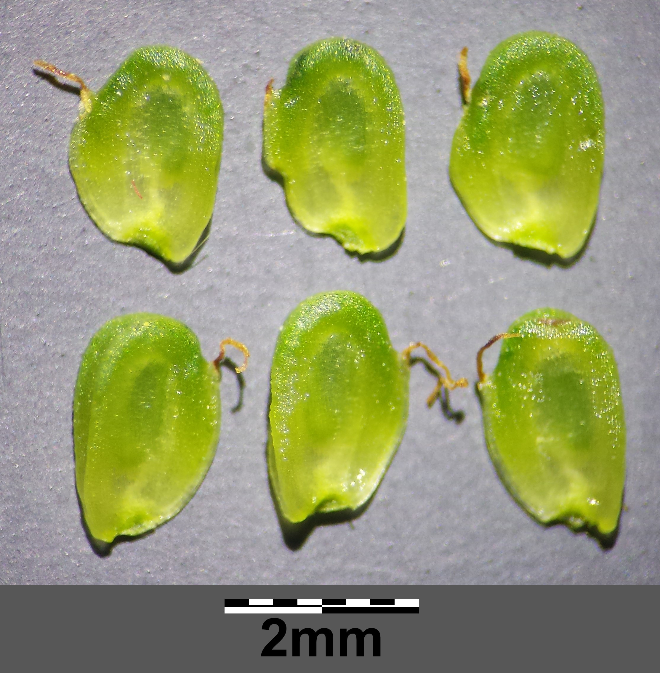 Nutlets Taxonym: Alisma plantago-aquatica ss Fischer et al. EfÖLS 2008 ISBN 978-3-85474-187-9 Location: pond in Arbesbach, Groß-Gerungs, district Zwettl, Lower Austria - ca. 830 m a.s.l. Habitat: shore of a pond